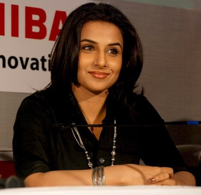 Vidya Balan at a function where she was named the brand ambassador of Toshiba India.